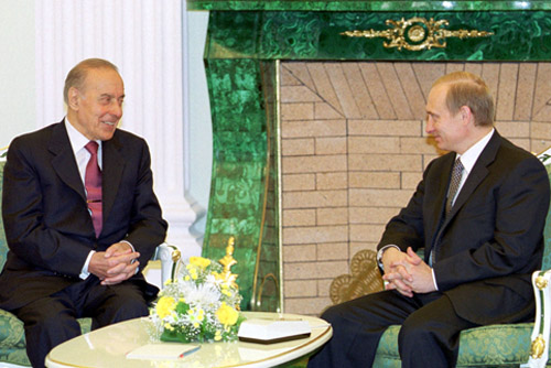 THE KREMLIN, MOSCOW. President Putin with Azerbaijani President Heidar Aliyev.